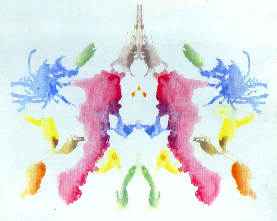 the tenth blot of the Rorschach inkblot test